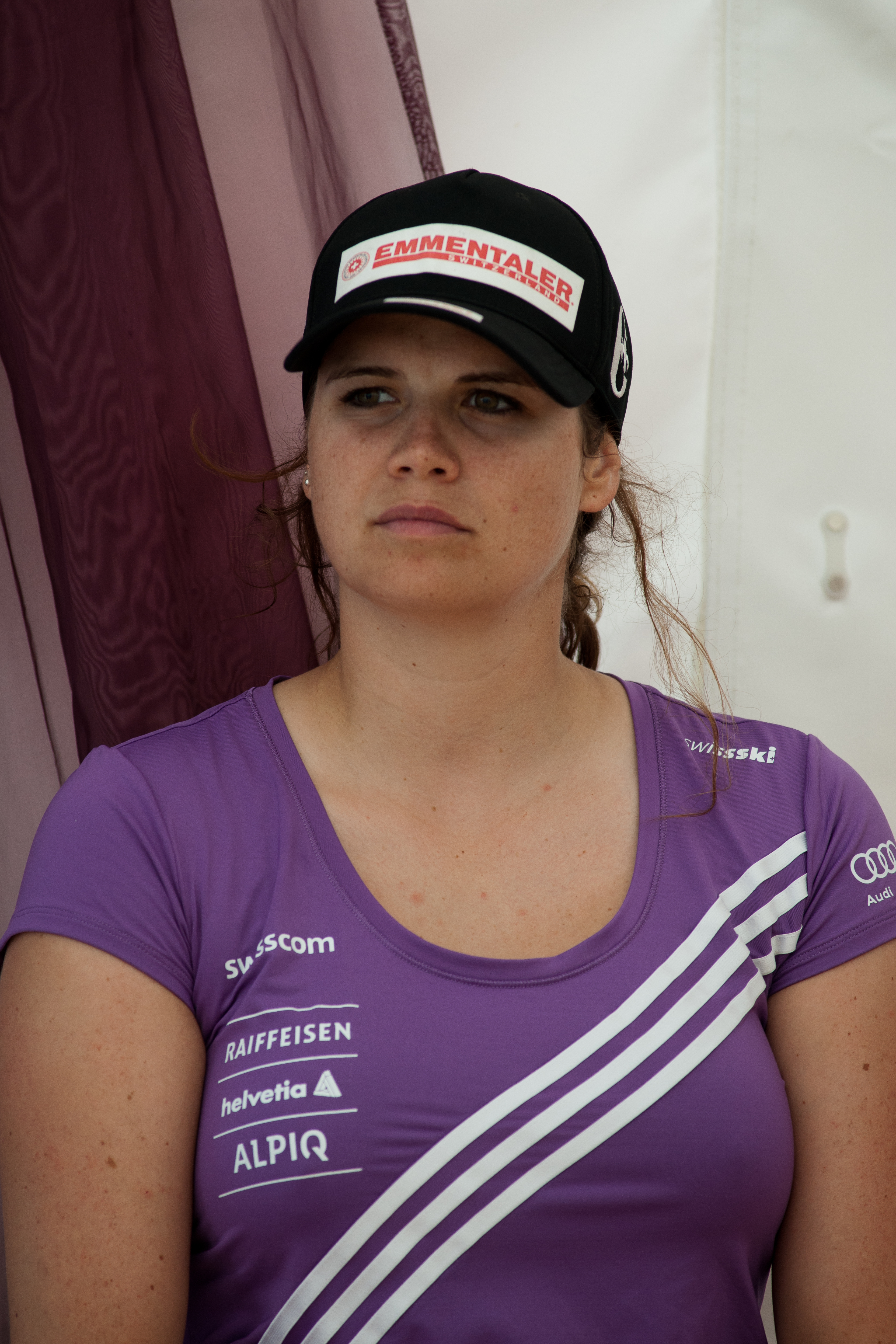 Unterseen, Switzerland